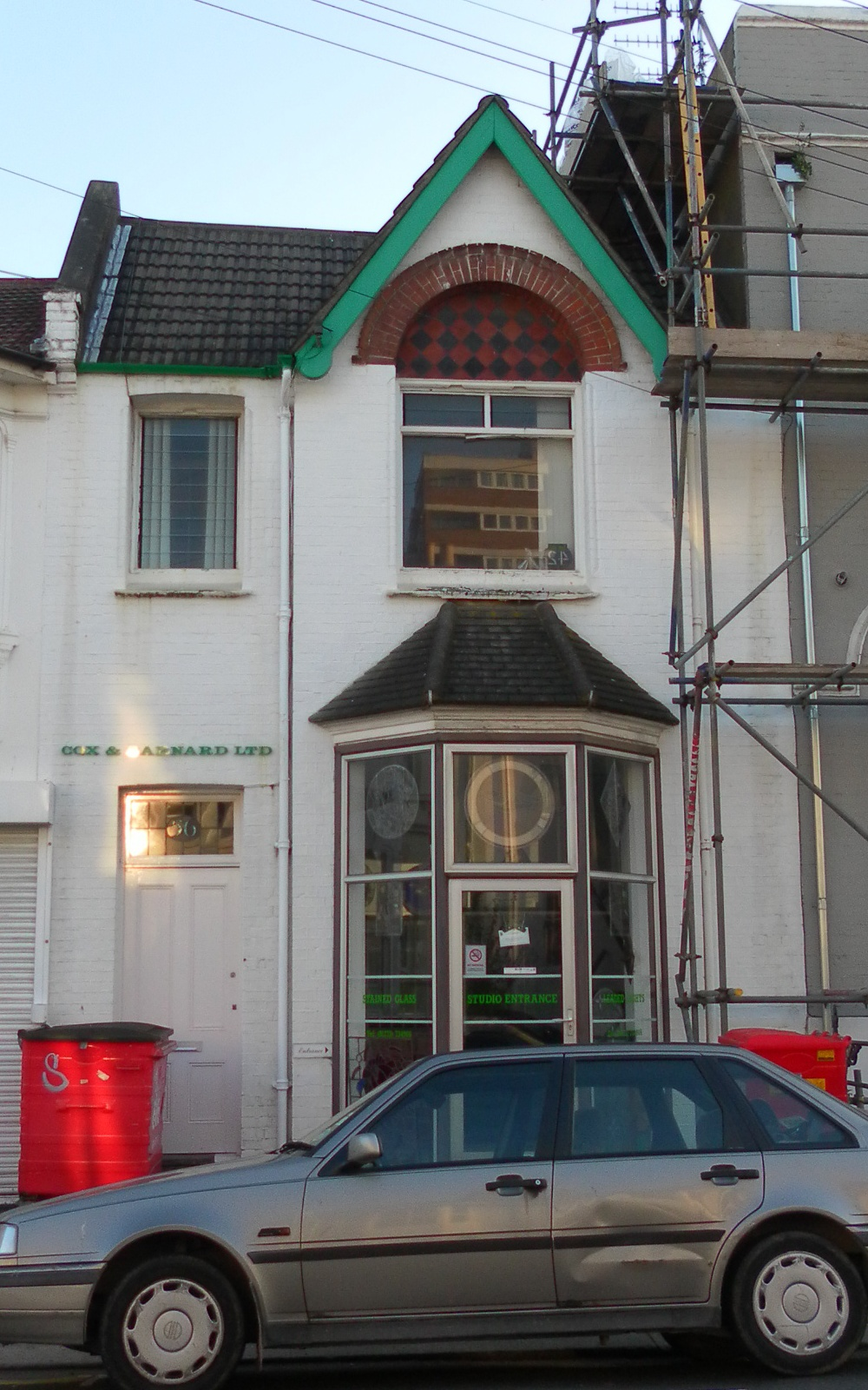 Headquarters of Cox & Barnard Ltd, a stained glass design and manufacturing company, at 56 Livingstone Road, Hove, City of Brighton and Hove, England.